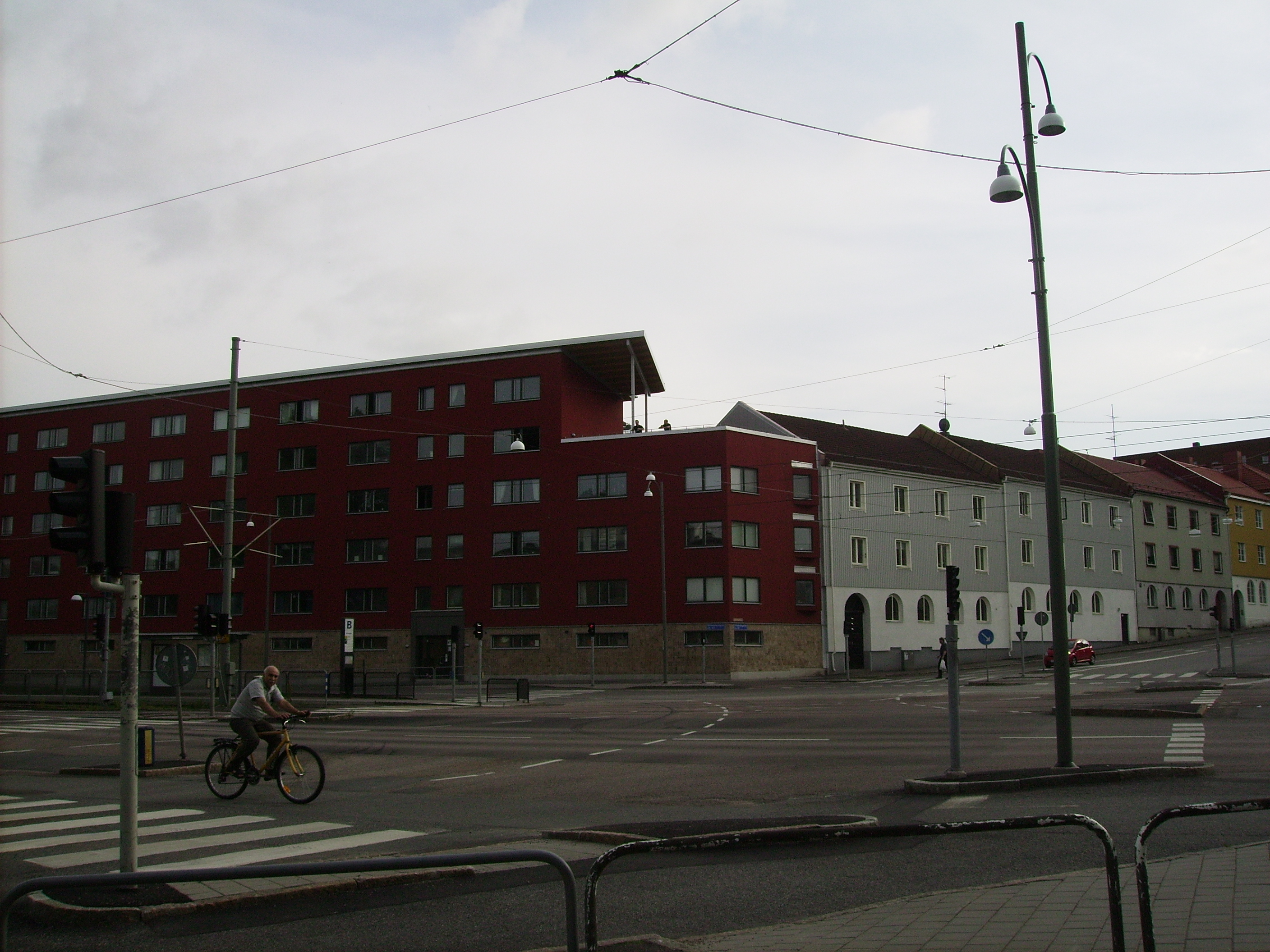 Picture of Almedal in Gothenburg. Sight from Skårs led.